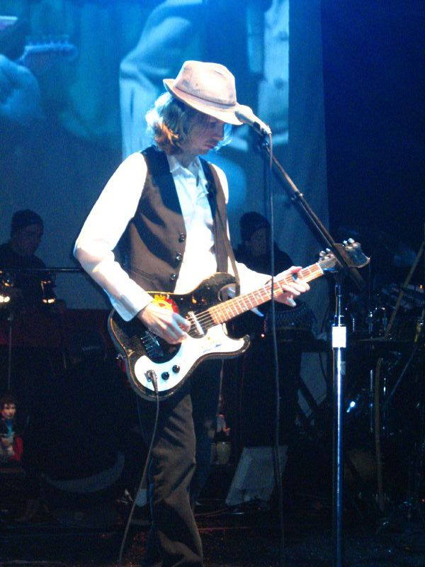 Beck performing at Yahoo! Hack Day (09/29/2006)